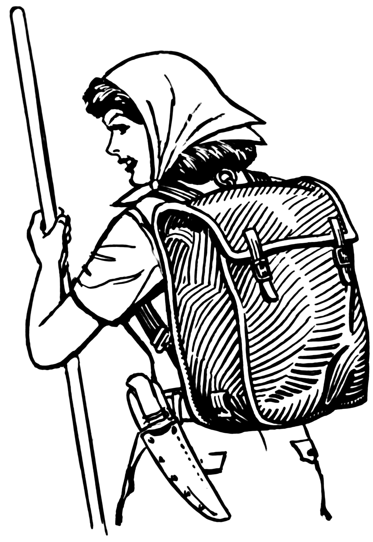 Line art drawing of knapsack.